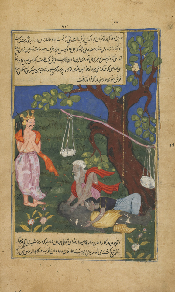 Folio from the Ramayana of Valmiki (The Freer Ramayana), Vol. 1, folio 98; recto: text; verso: The blind hermit and his wife mourn their son, who was slain accidentally by Dasaratha 1597-1605 Kala Pahara , (Indian, Mughal dynasty Opaque watercolor, ink, and gold on paper H: 19.1 W: 12.5 cm Northern India Gift of Charles Lang Freer F1907.271.98